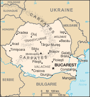 French map of Romania